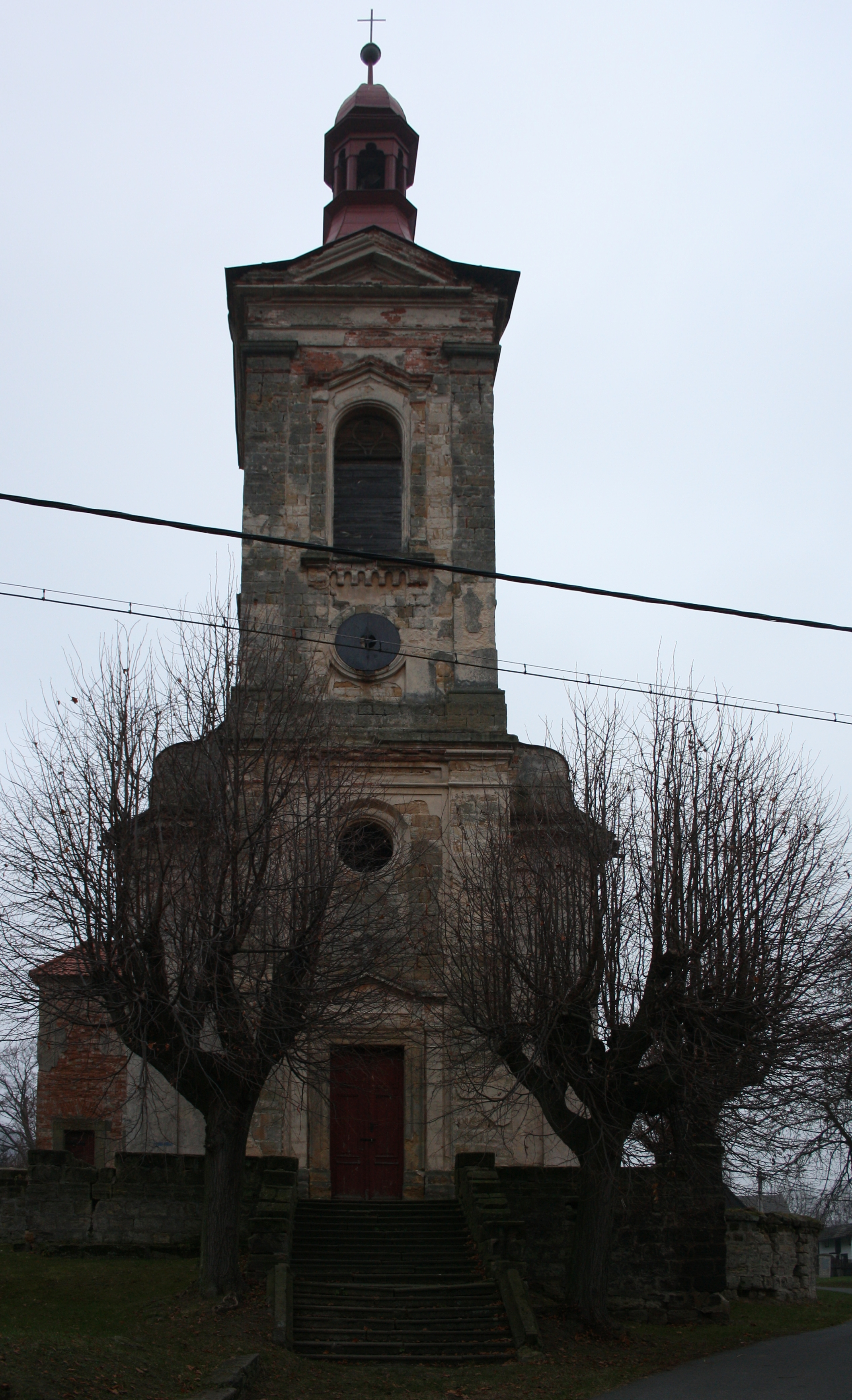 Chlum (Česká Lípa District, Czech Republic) - church of St. George